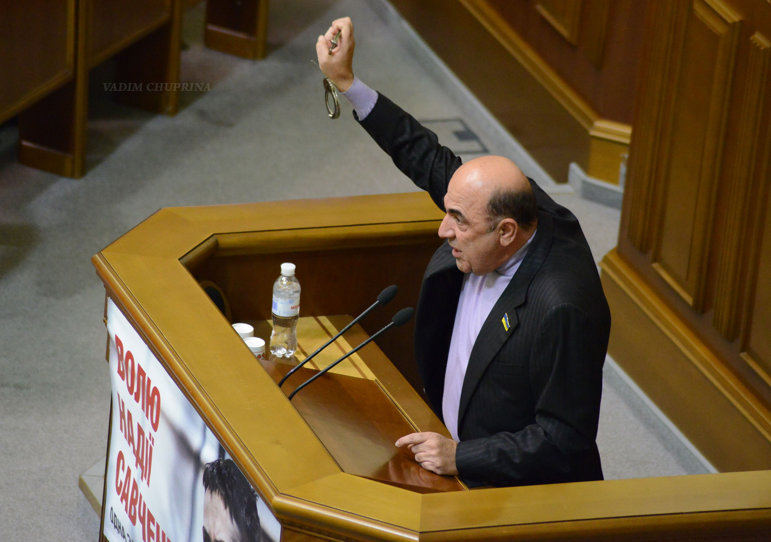 Ukrainian politicians VADIM CHUPRINA